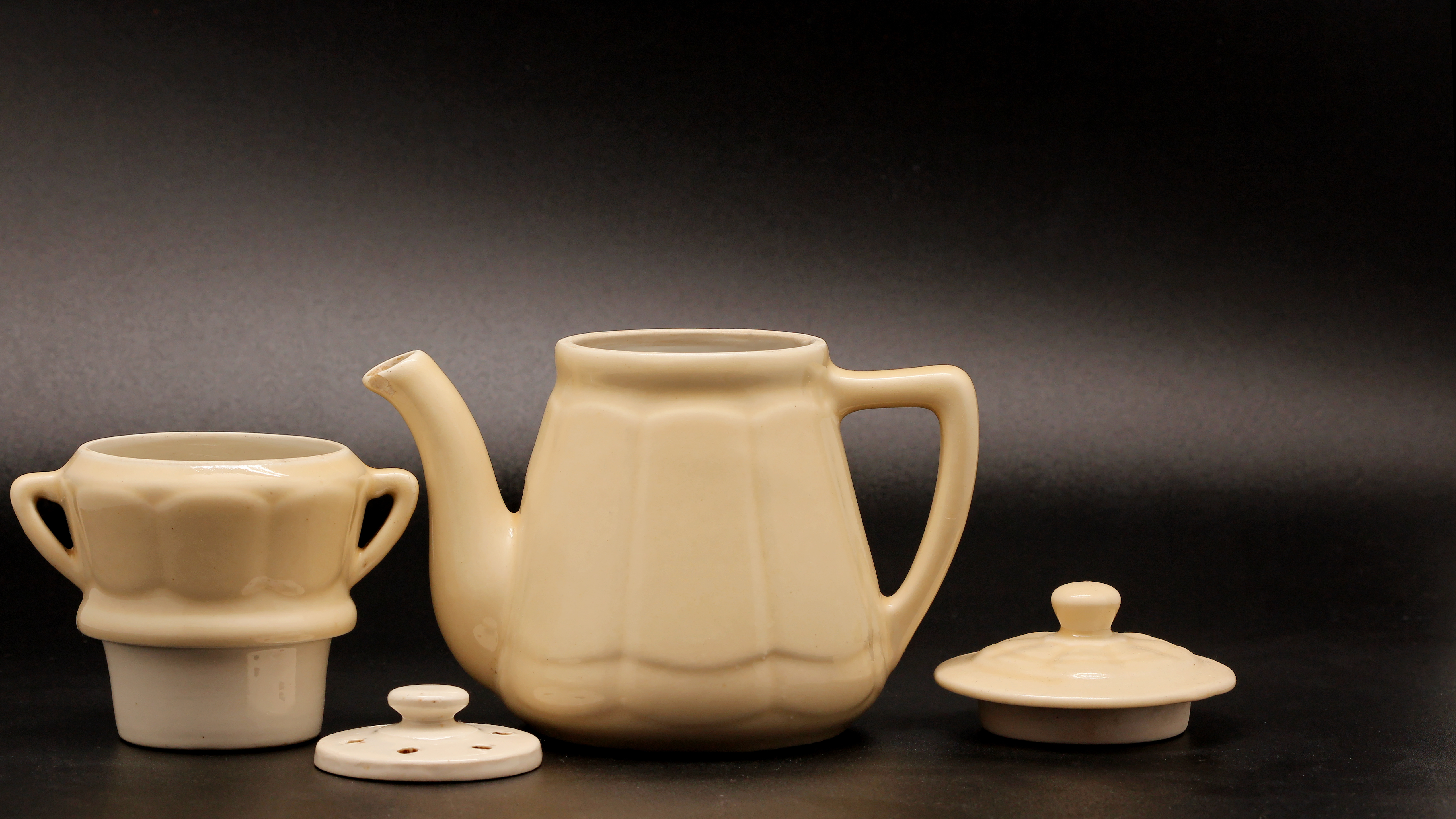 Coffeemaker.